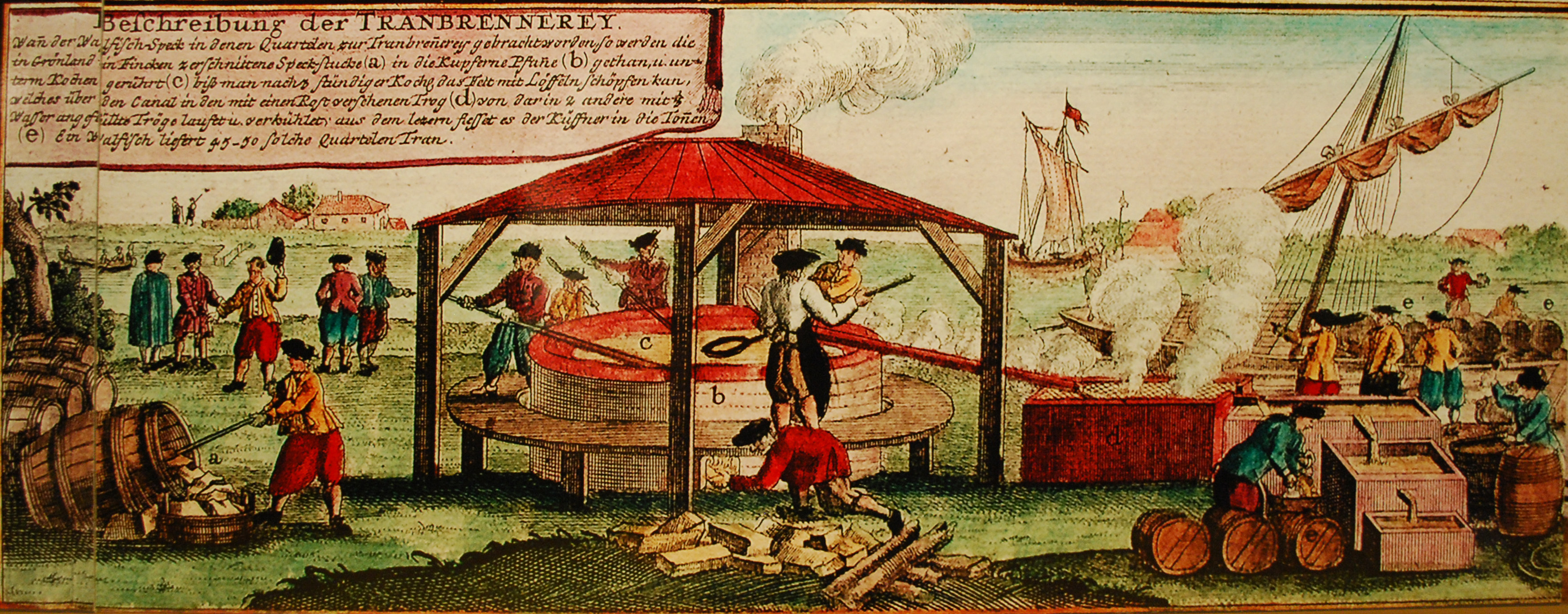 Extraction of Whale-Oil, image from a 18th century book